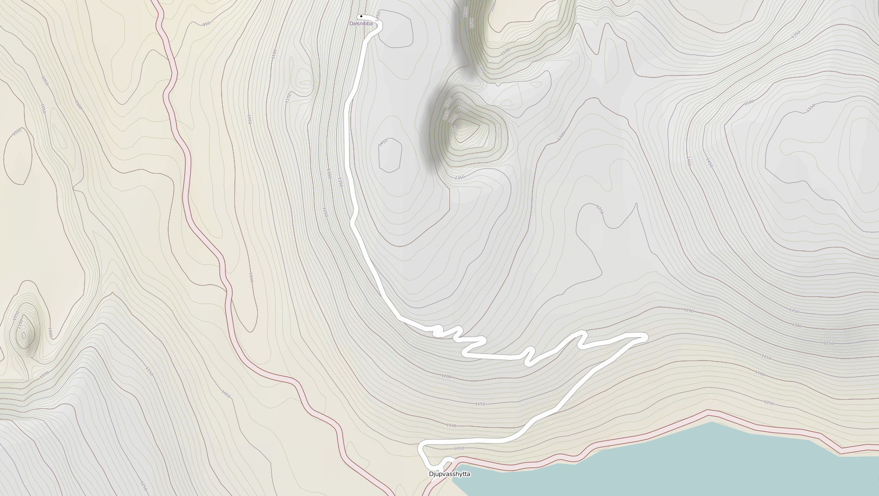 Map of the Nibbevegen in Stranda commune, Norway